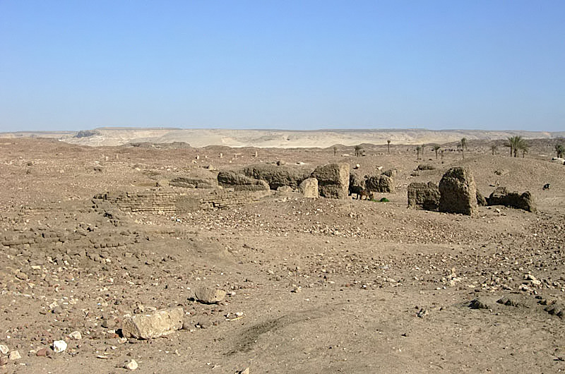 Settlement remains, view to the south east, el-Sheikh 'Abada, Egypt